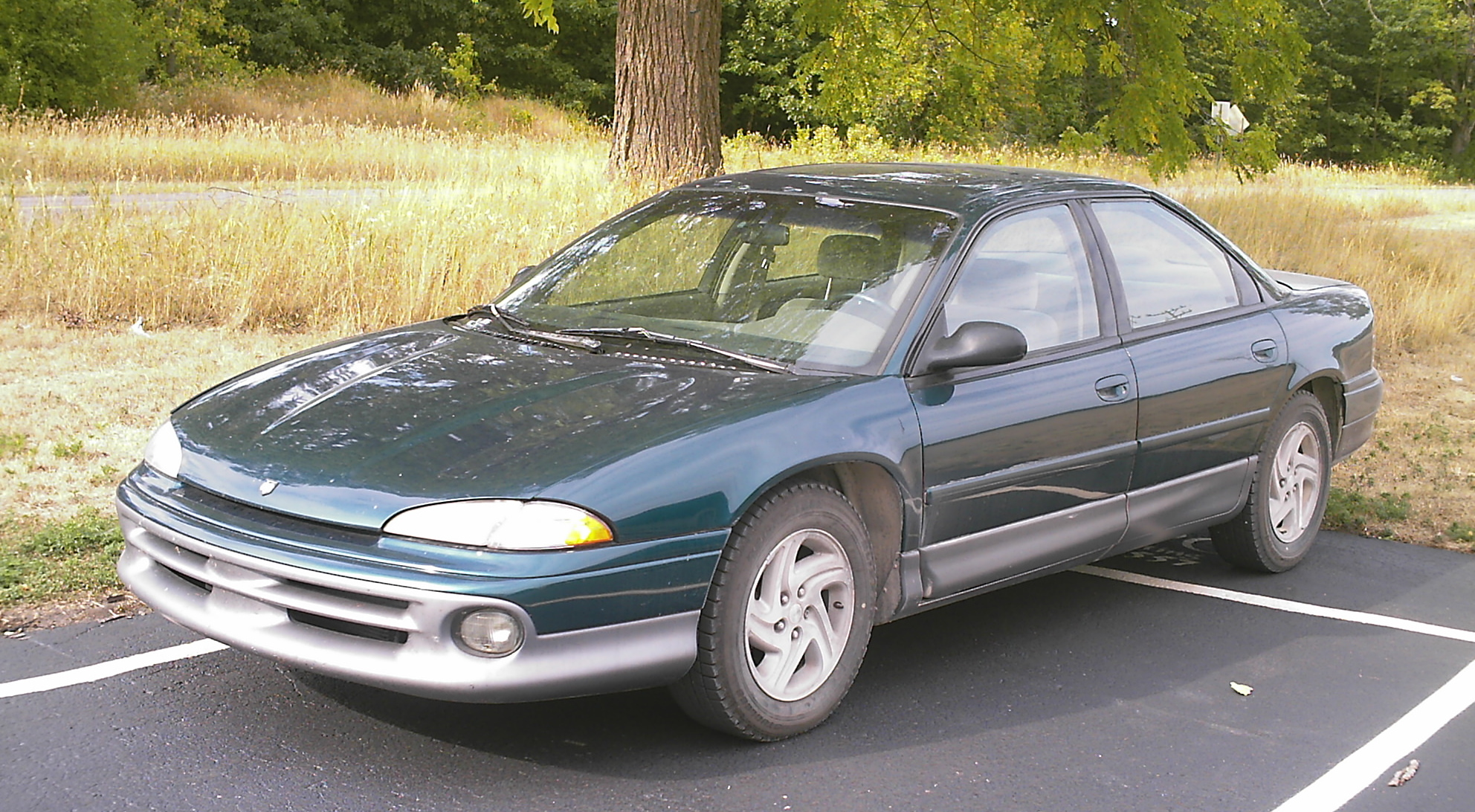 1994 Dodge Intrepid, photographed in Cross Village, Michigan.